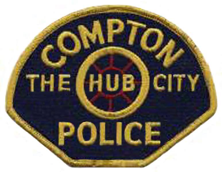 Patch